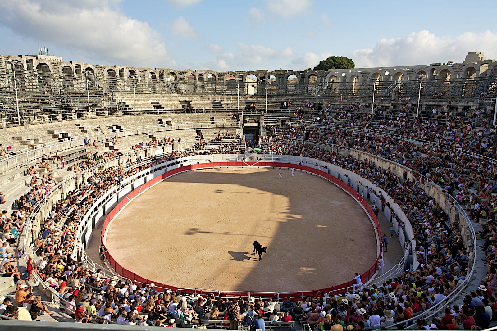 Bullfight at the amphitheatre in Arles